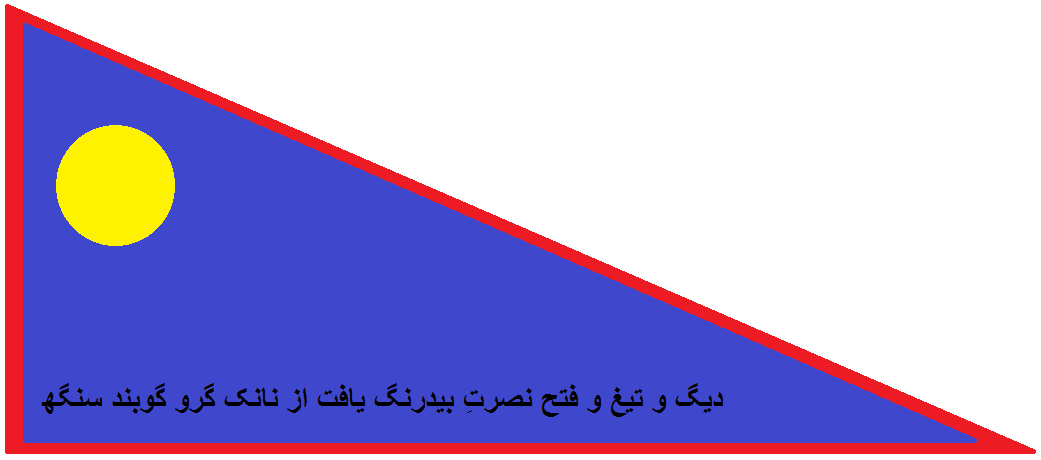 Fauj i Ain flag